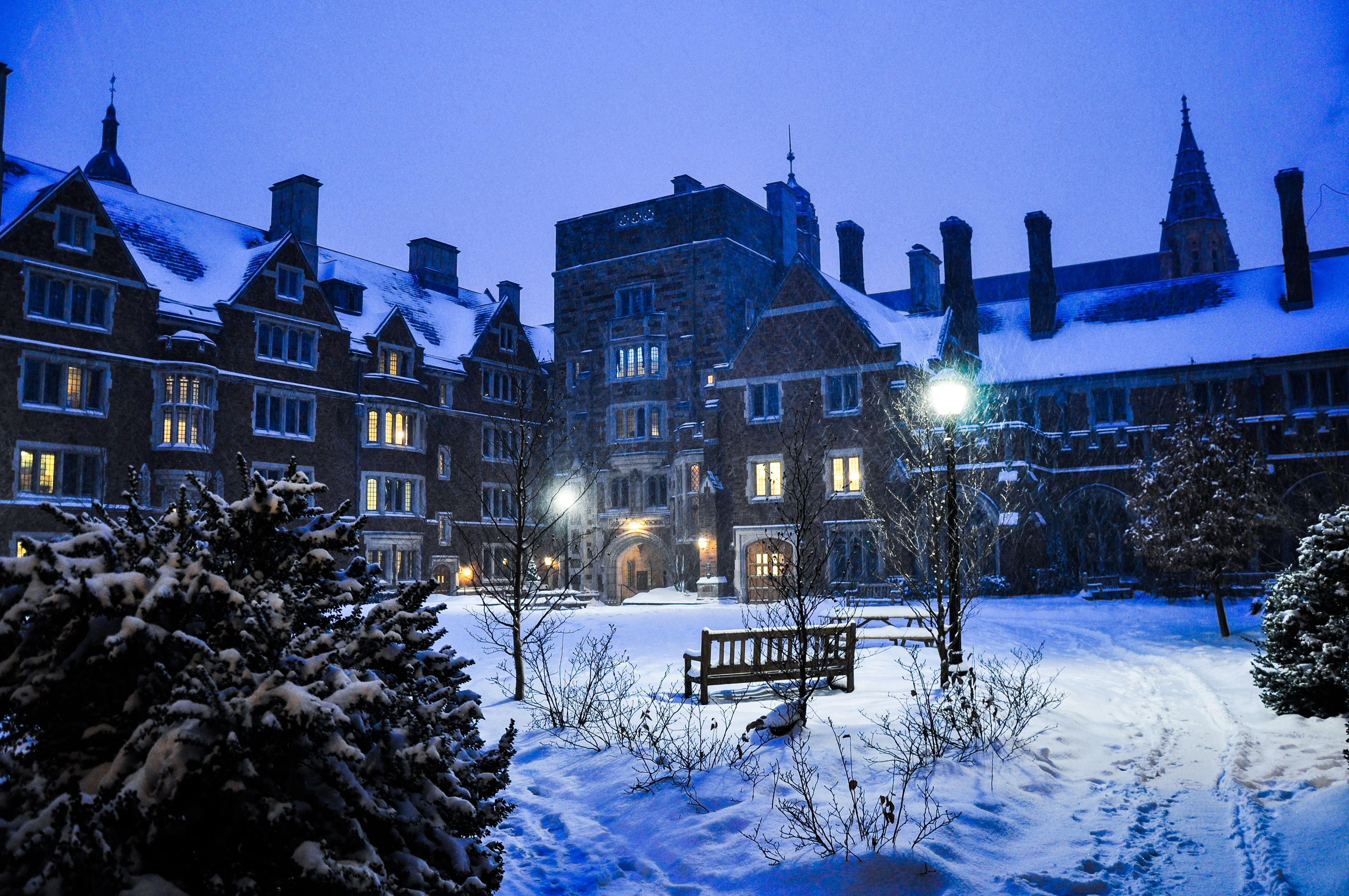 The courtyard of Calhoun College in the snow.